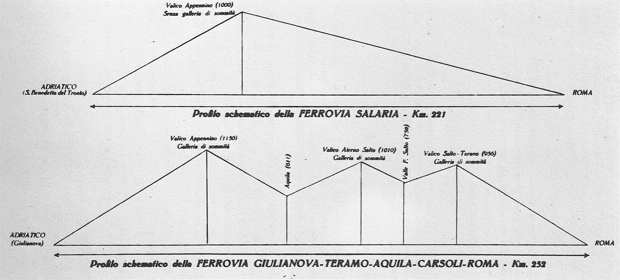 Altimetry in which are compared the tracks of two unfulfilled transapennine railroads: the Salaria railway (Rome-Rieti-Ascoli-San Benedetto del Tronto) and the Rome-Aquila-Teramo-Giulianova railway